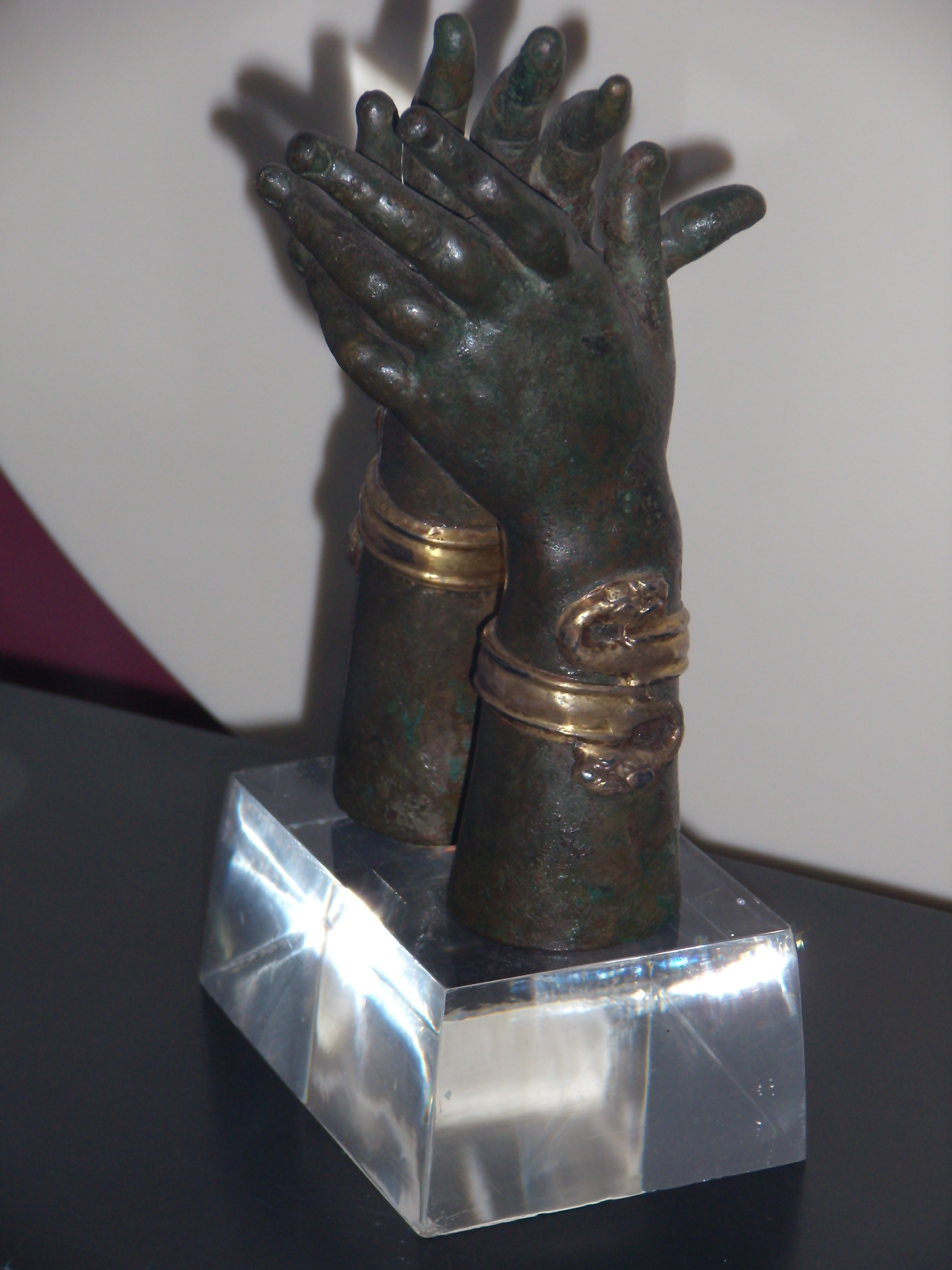 Ancient Greek nutcracker, in gilded bronze, dating from the late 4th / early 3rd century BC, on display in the National Archaeological Museum of Taranto - Italy.